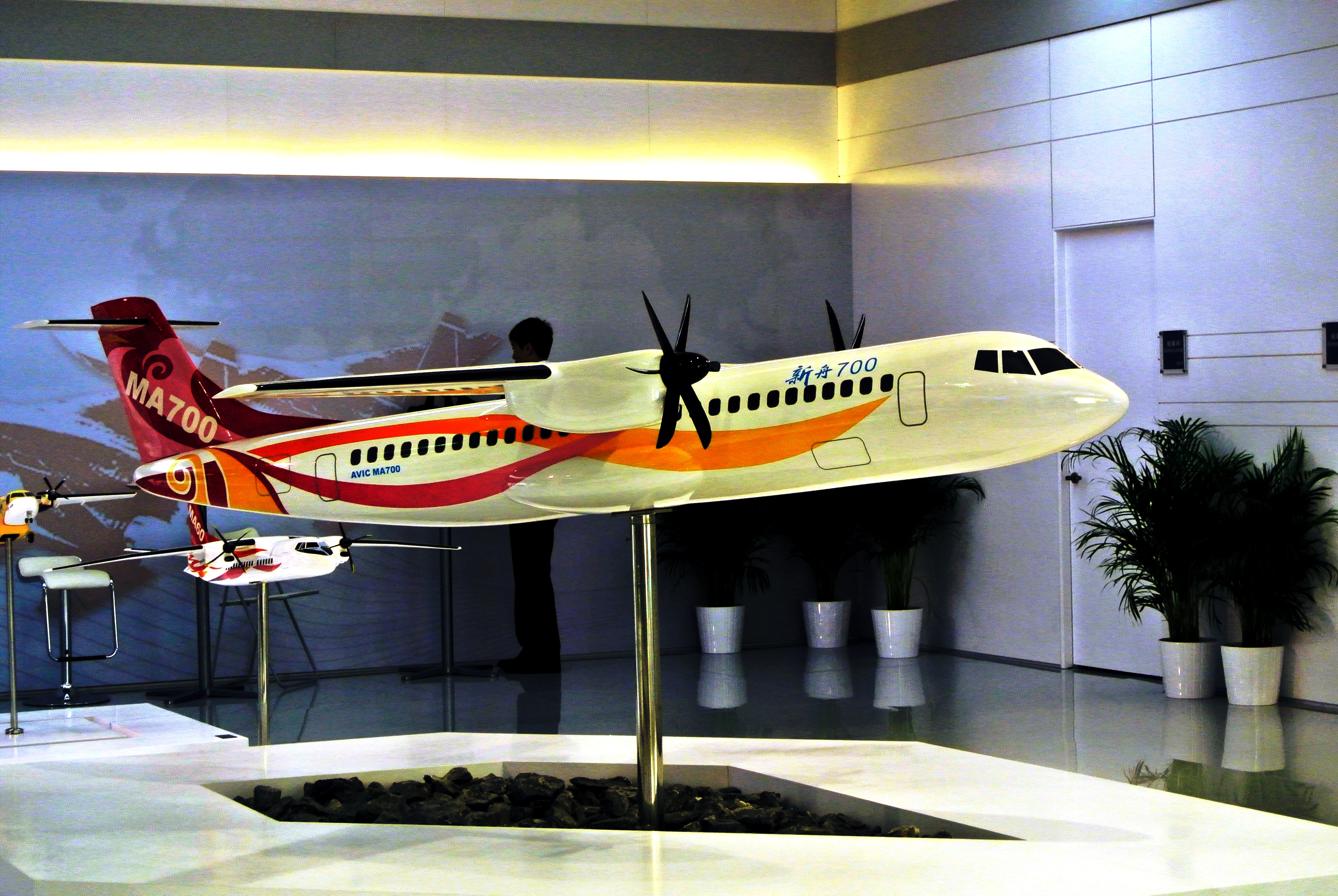 Xian MA700 Mockup at Paris Airshow 2013